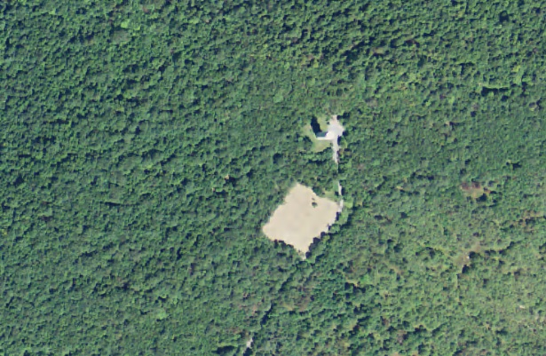 A satellite view of the deactivated Presidential Emergency Facility "Cannonball" on Cross Mountain, Pennsylvania.